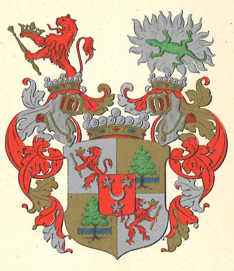 Coat of arms of the Swedish baronial family of Hamilton af Hageby.